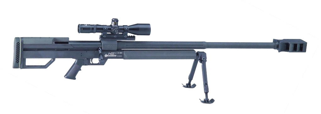 A Steyr HS .50 seen from the right side with a scope.